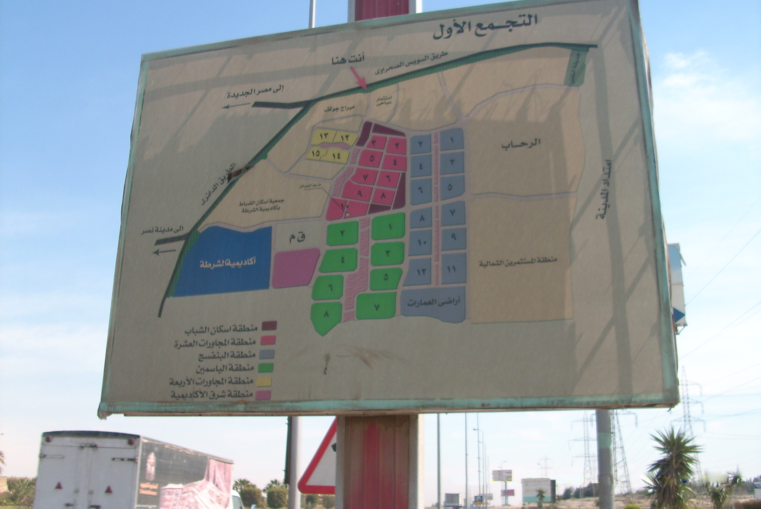 New Cairo Map, First settlement